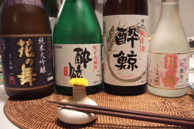 6 locations in both US and Japan hosted a tasting with same set of sake. See